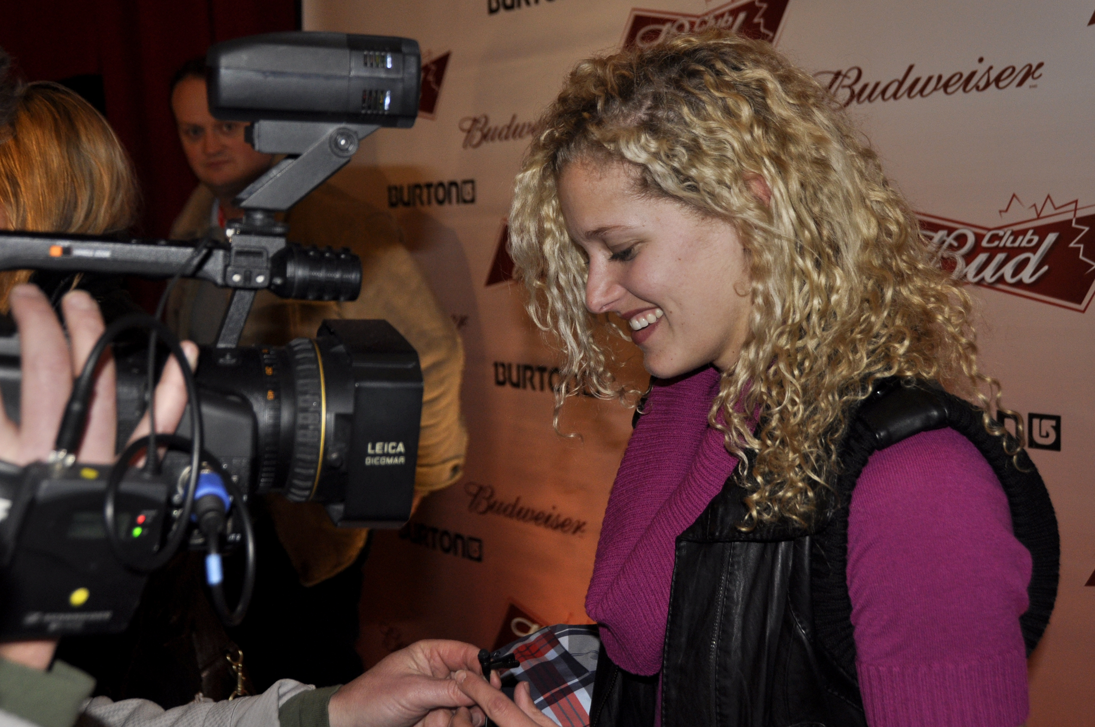 Lindsey Jacobellis at the Club Bud private Burton party